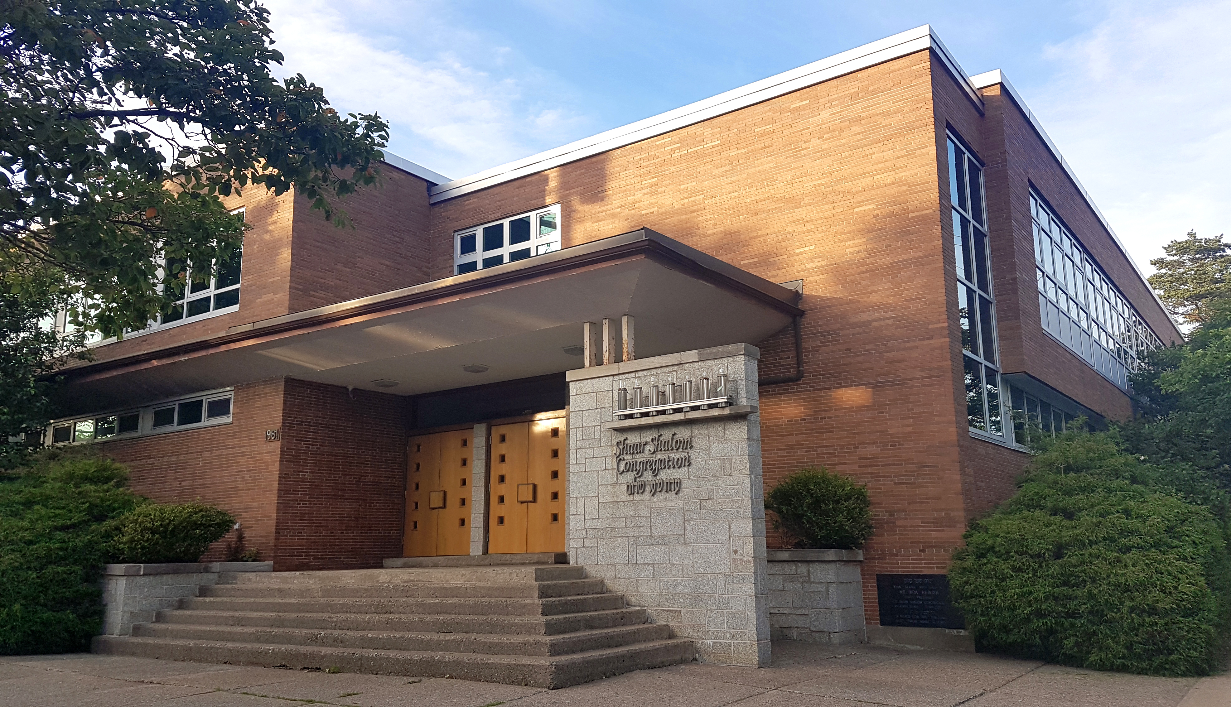 July 11, 2019 photo of the Shaar Shalom Synagogue located at 1981 Oxford Street, Halifax, Nova Scotia, Canada.